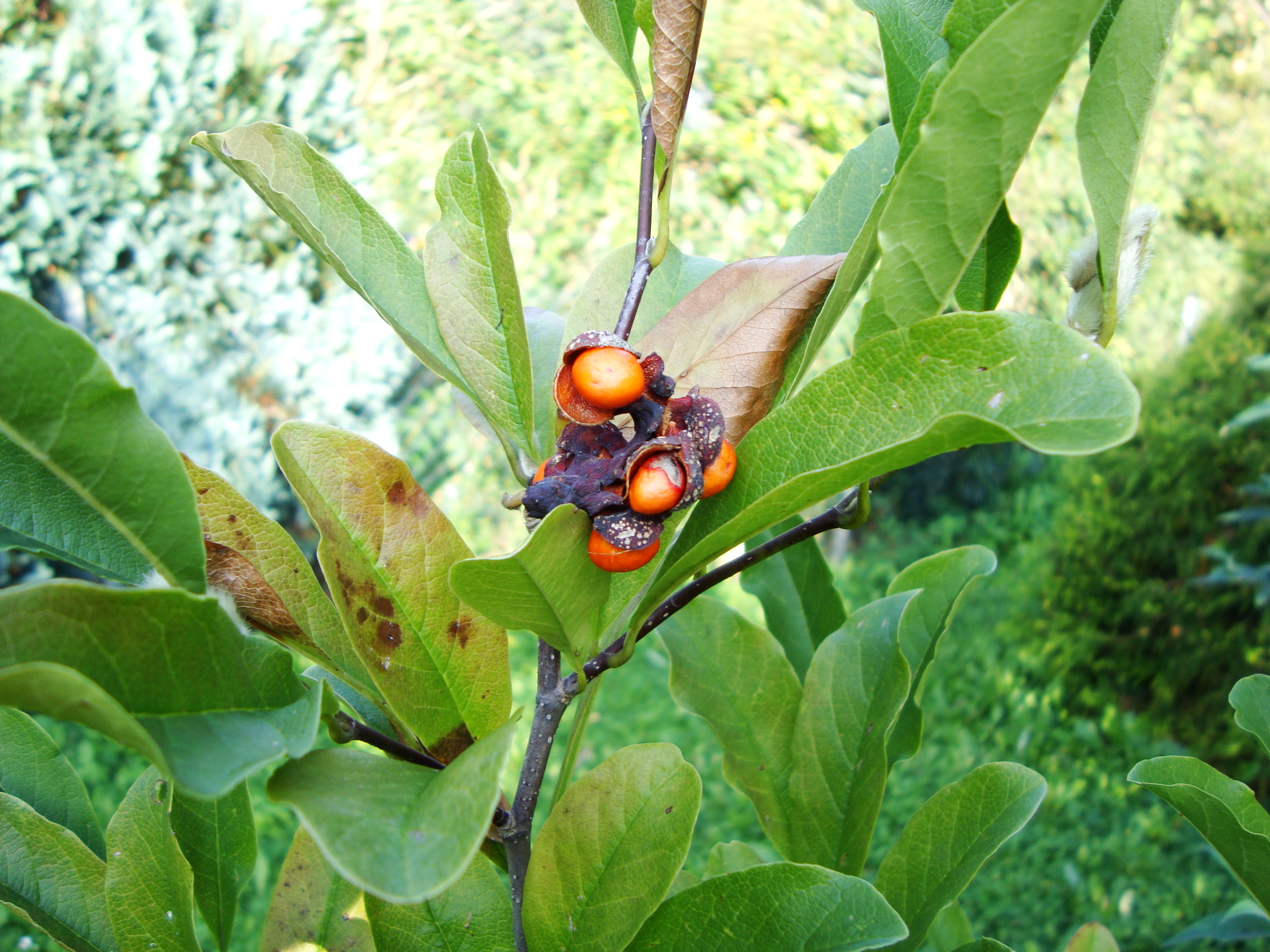 Fruit of Magnolia stellata